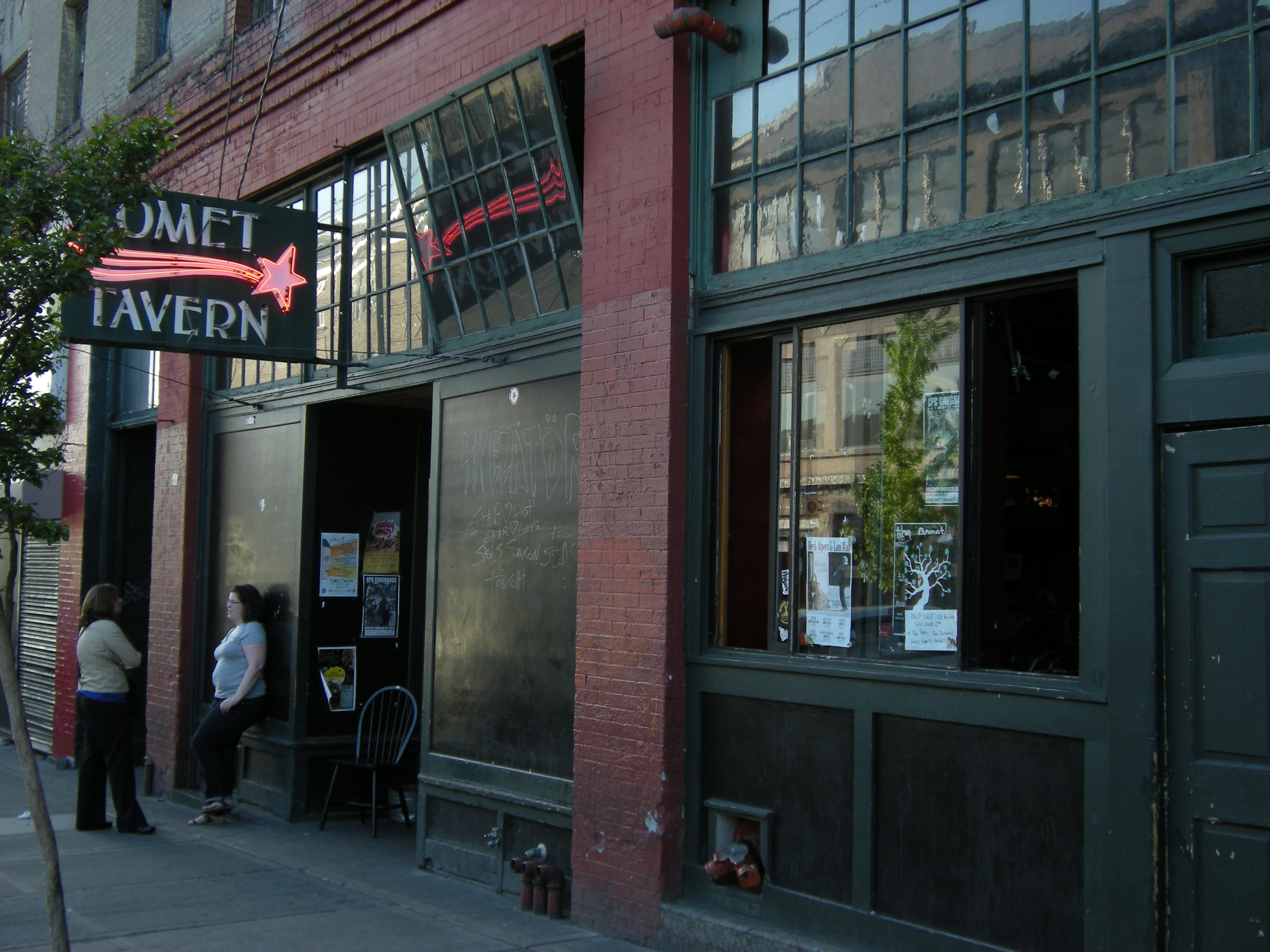 Comet Tavern, 922 East Pike Street, Capitol Hill, Seattle, Washington, USA.